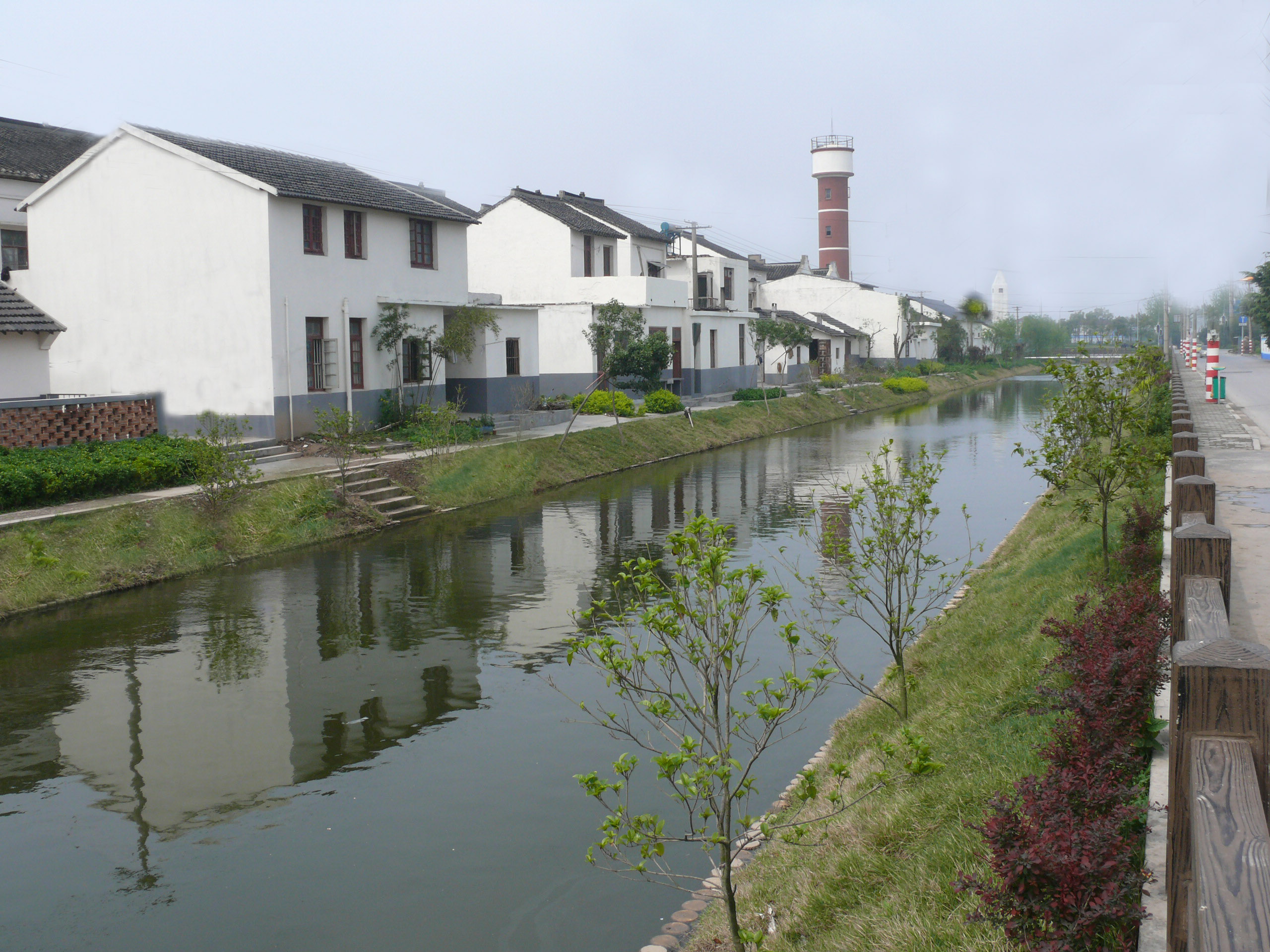 New Hushu Town